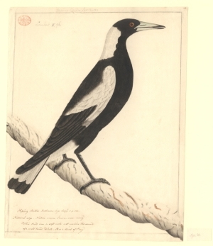 Digital image of Gymnorhina tibicen attributed to the "Port Jackson Painter". See notes